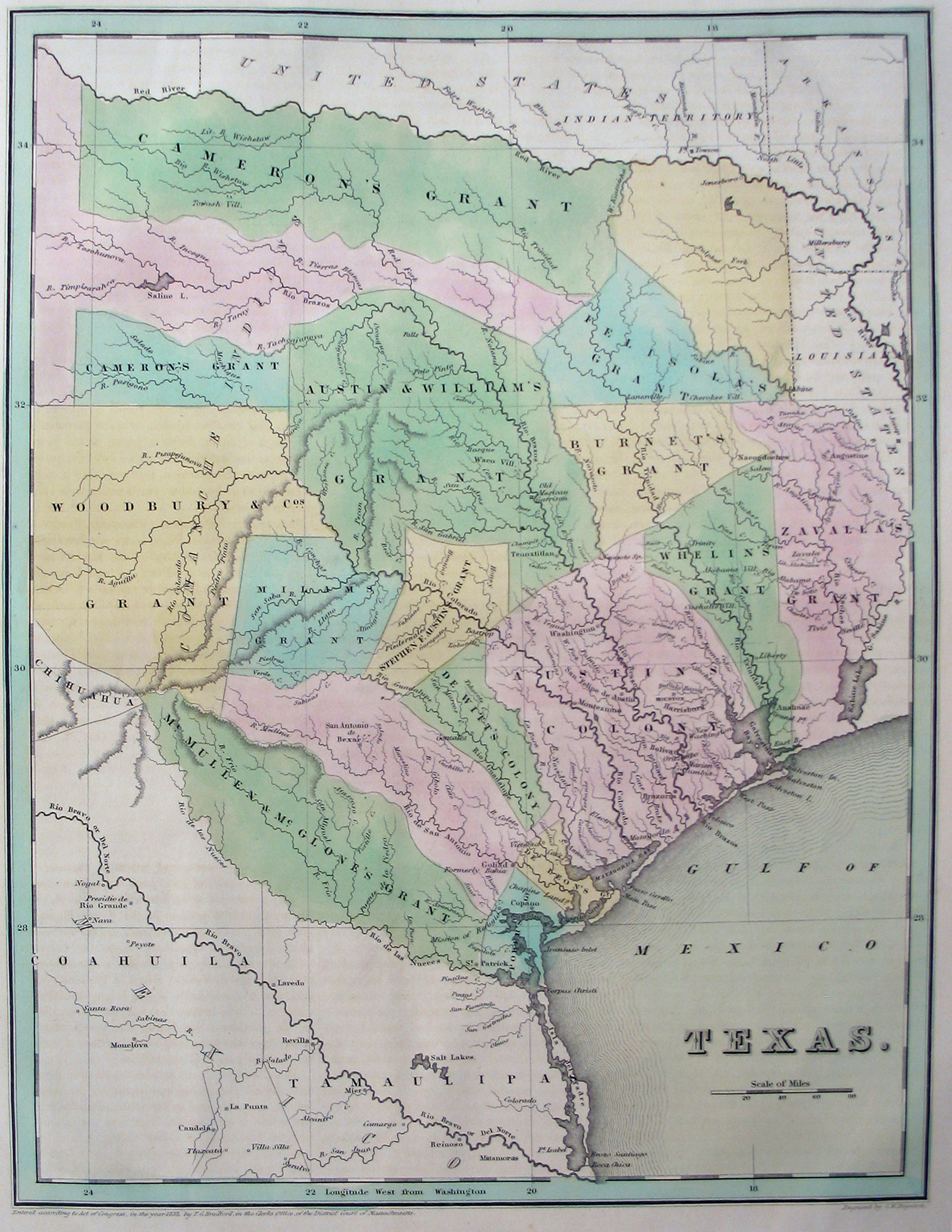 In addition to a map of Texas for his 1835 atlas, Boston editor and publisher Thomas Gamaliel Bradford (1802-1887) issued another larger map of the new republic in vertical format for his larger and more elaborate atlas of 1838. Boston engraver G. W. Boynton engraved the newer map. It corrected and updated some of the older information, such as, for examples: what was formerly "Goliod" is now correctly spelled "Goliad", Cole's Settlement is now the town of Washington; the towns of Corpus Christi, Houston, Electra, and others have been added as have the Coushatta and Alabama Indian villages in the east; and the northeast boundary with Arkansas and Louisiana has been corrected to reflect, for the most part, its current configuration. By outline and, in this version also by color, Bradford continued to show the old Mexican land grants rather than the republic's new counties. In his lengthy text accompanying the map he conceded that "the boundaries of this infant commonwealth are as yet unsettled on the side of Mexico" but the newer map includes the mouth of the Rio Grande; moreover, other examples of Bradford's 1838 map nevertheless depict the Rio Grande as the boundary through original outline color suggesting perhaps Bradford may have had a different, more pro-Texas audience in mind.